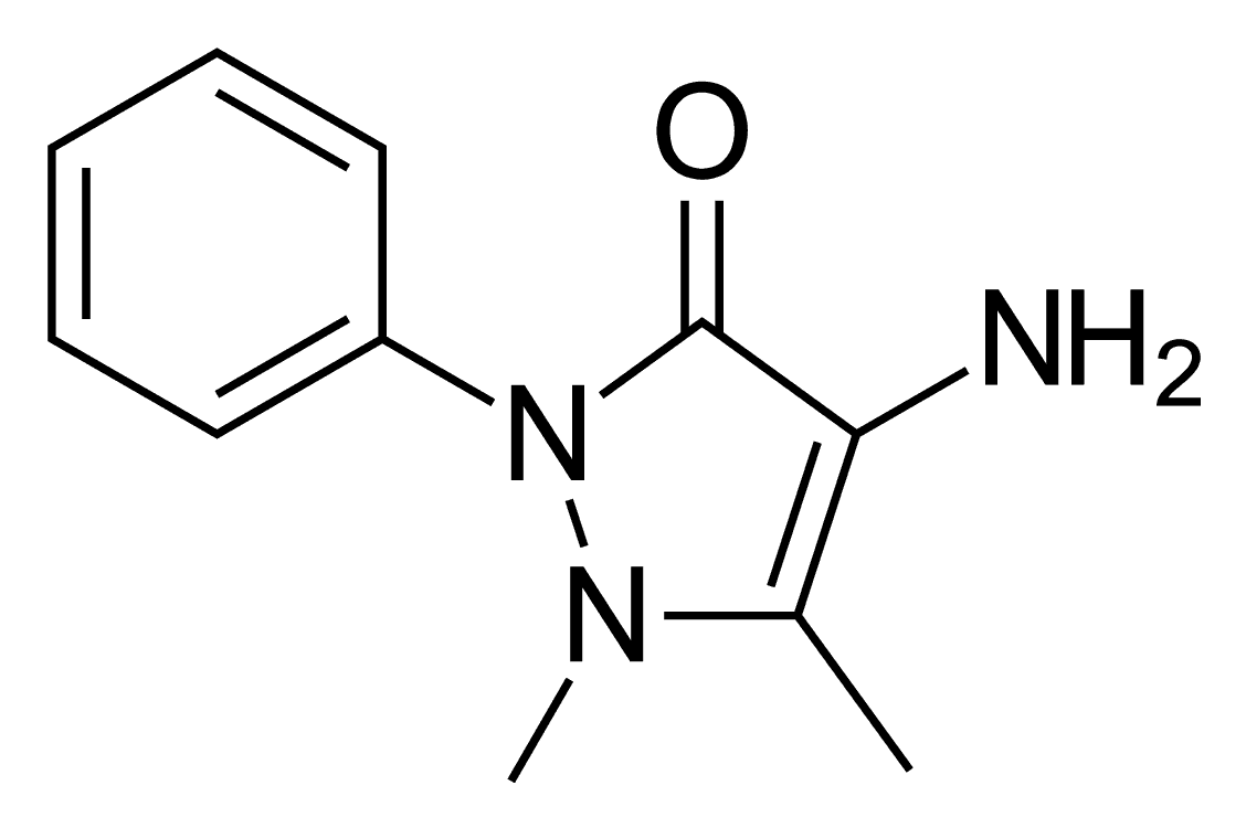 Chemical structure of ampyrone